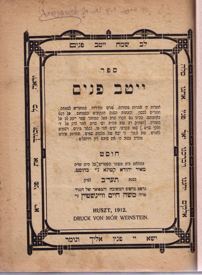 Yitav Panim, Huszt 1012